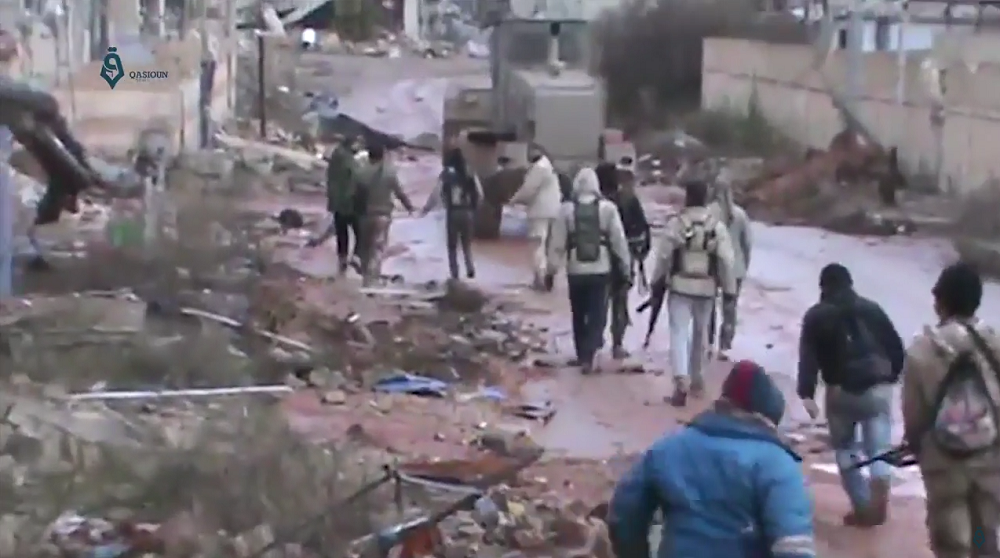 Syrian opposition fighters advance in the al-Manishiyah District in Daraa city during the rebel offensive in early 2017.